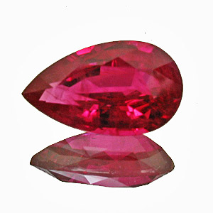 Ruby pear cut 2.47cts